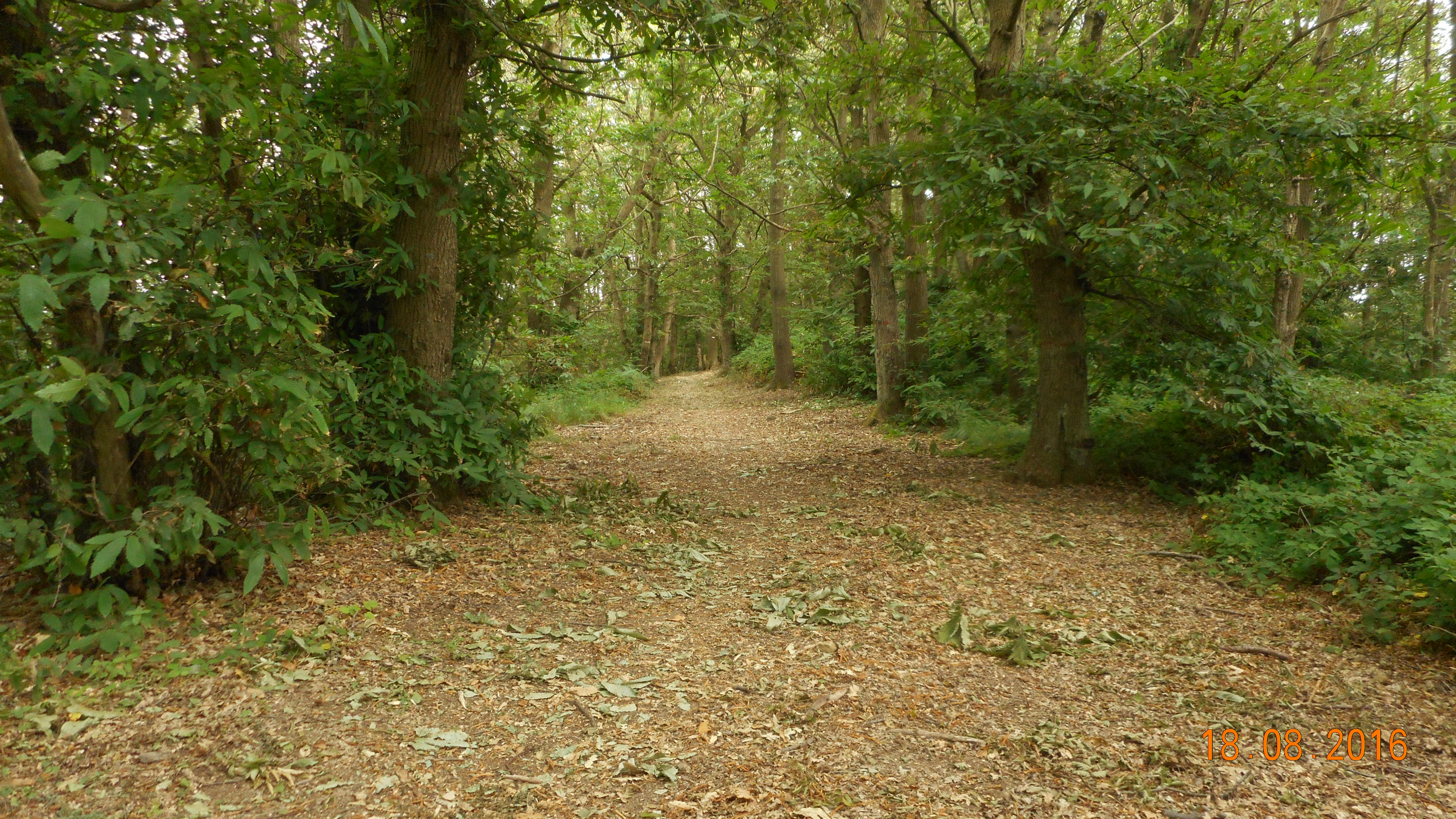 A flat and suggestive stretch of the path between Riomaggiore and Manarola